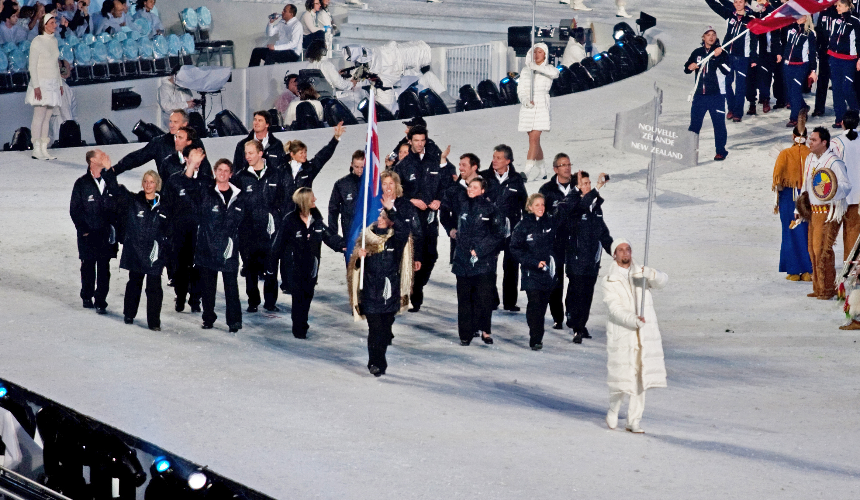 The athletes from New Zealand entering the stadium at the opening ceremonies of the 2010 Winter Olympics